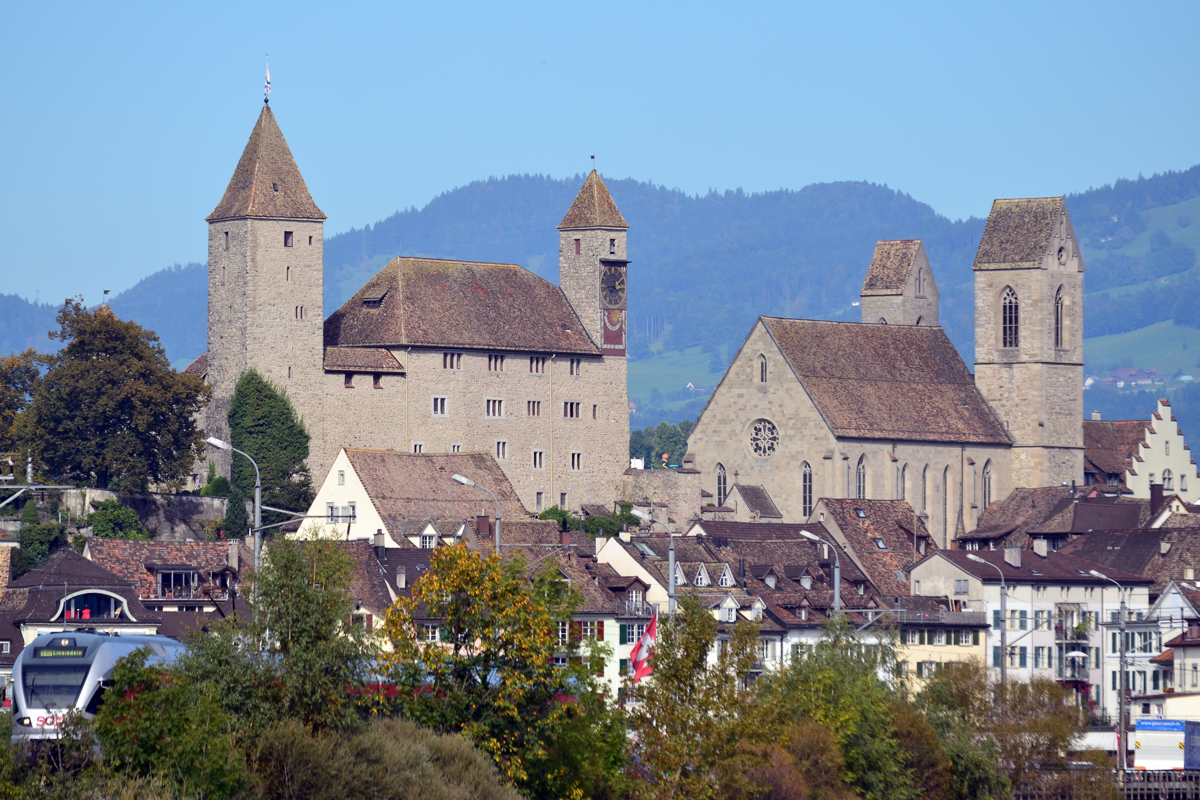 Rapperswil (Switzerland) : Rapperswil castle, Altstadt and St. John's Church, as seen from Holzbrücke crossing Obersee (upper Lake Zurich) between Rapperswil and Hurden, the so-called Seedamm area in the foreground to the left.